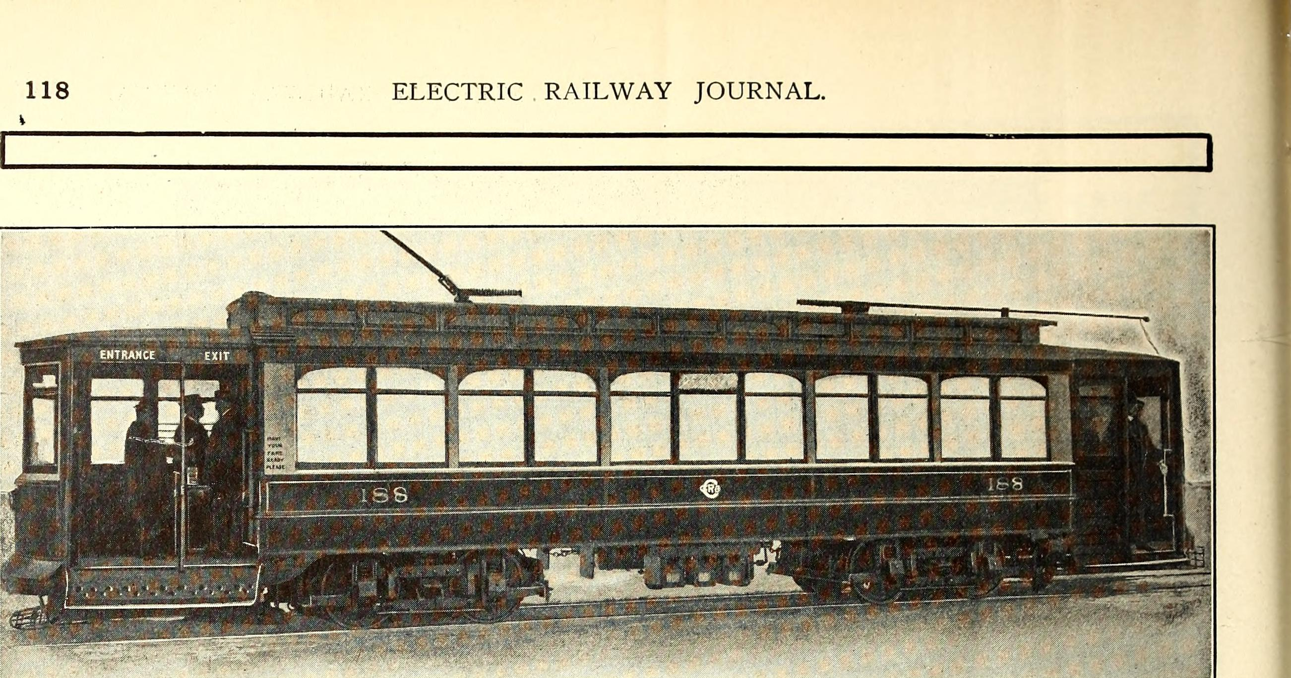 Title: Electric railway journal Year: 1908 (1900s) Authors: Subjects: Electric railroads Publisher: (New York) McGraw Hill Pub. Co Text Appearing Before Image: Yo*k, Pa. Text Appearing After Image: Pay-as-You-Enter Car of the Chicago City Railway Co., Chicago Accident Reduction I in Chicago I Pay-As-You-Enter Cars have practically eliminated plat-form accidents.—President T. E. Mitten. Accidents of all kinds have been very substantially reducedon all Chicago lines operating Pay-As-You-Enter Cars. Both the Chicago City Railway Co. and the Chicago RailwaysCo. confidently expect to show a still further accident reduc-tion when their other lines are also equipped for Pay-As-You-Enter operation, and this reduction has invariablyfollowed the use of Pay-As-You-Enter Cars in other cities. The Pay-As-You-Enter Car Has We license manufacturers and railways to build and use thePay-As-You-Enter Car, the patents on which are owned by The Pay-As-You-Enter Car Corporation dutjcan^Mcdonald 50 Church street, New York thosm,1!sey ELECTRIC RAILWAY JOURNAL. 119